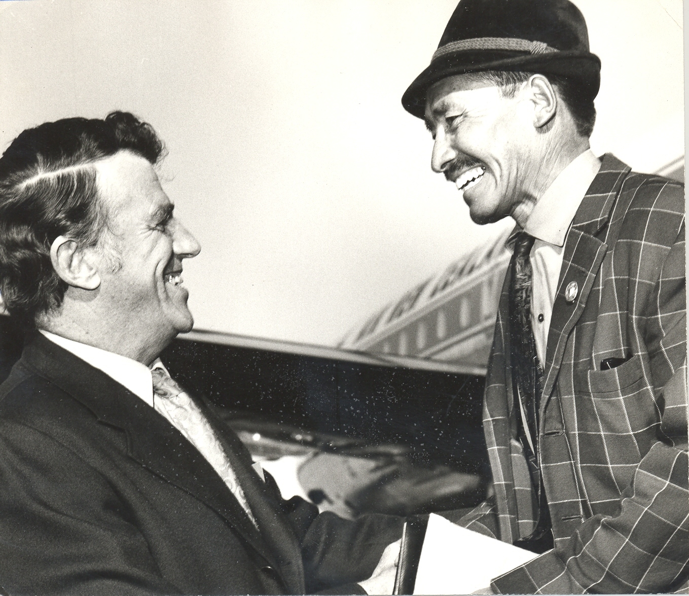 Edmund Hillary & Sherpa Tenzing 1 B&W photo print, copy Beside aircraft shaking hands in greeting or farewell. Any use of this image must be accompanied by the credit “Horowhenua Historical Society Inc.”